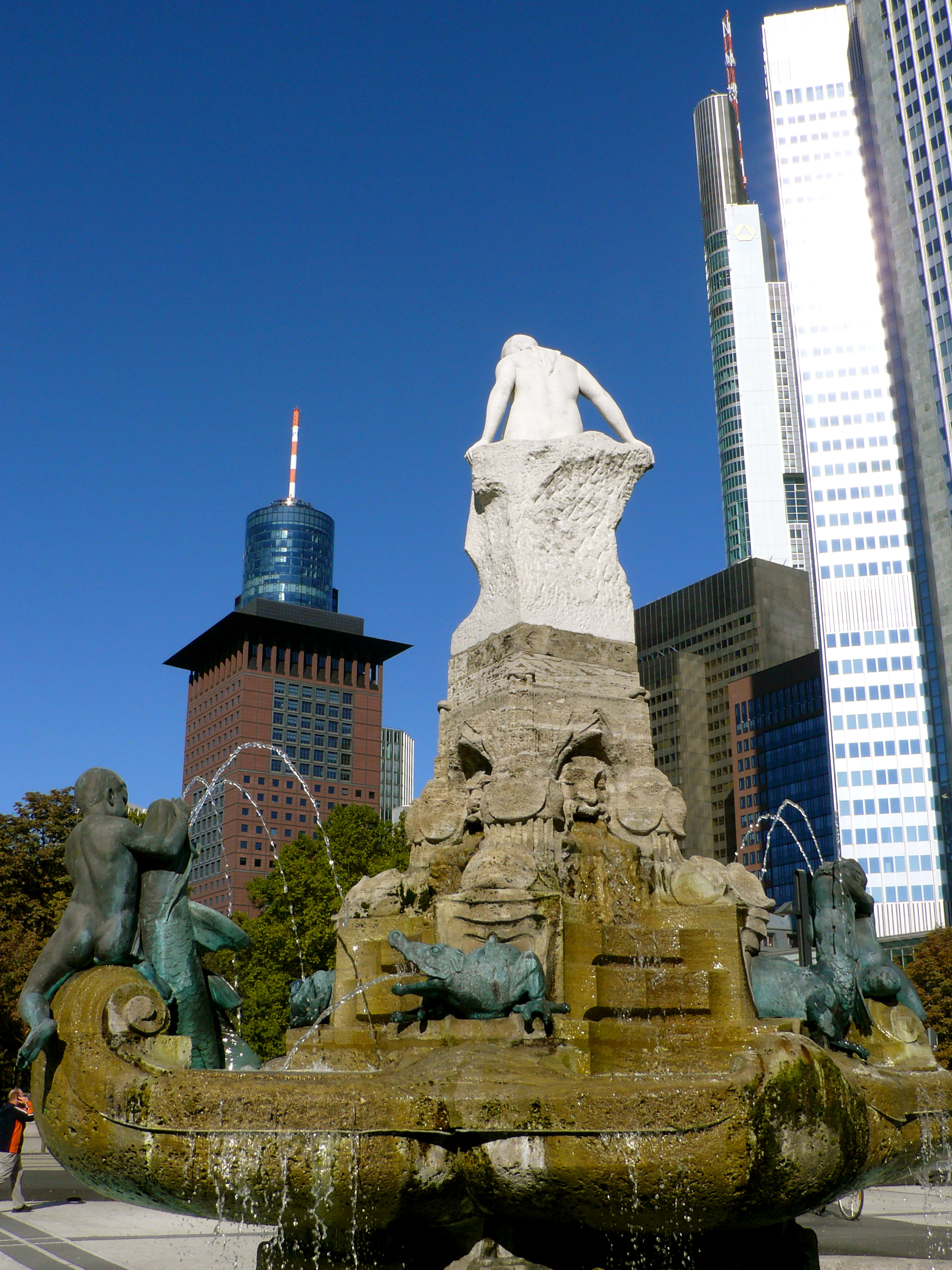 Fairy Tale Fountain near theater, Gallusanlage, Frankfurt, Hesse, Germany